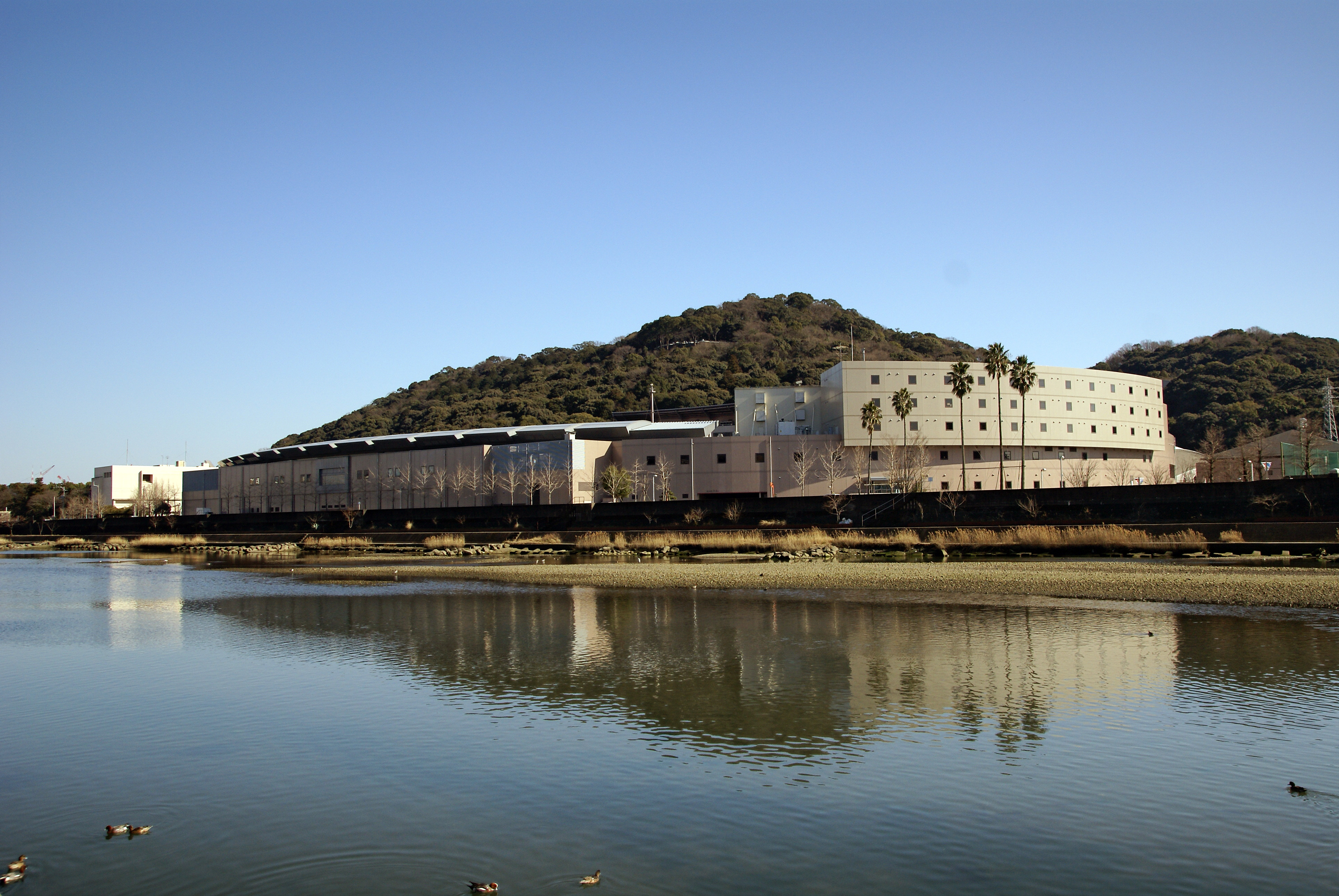 Ryoma Stadium in Kochi, Kochi prefecture, Japan